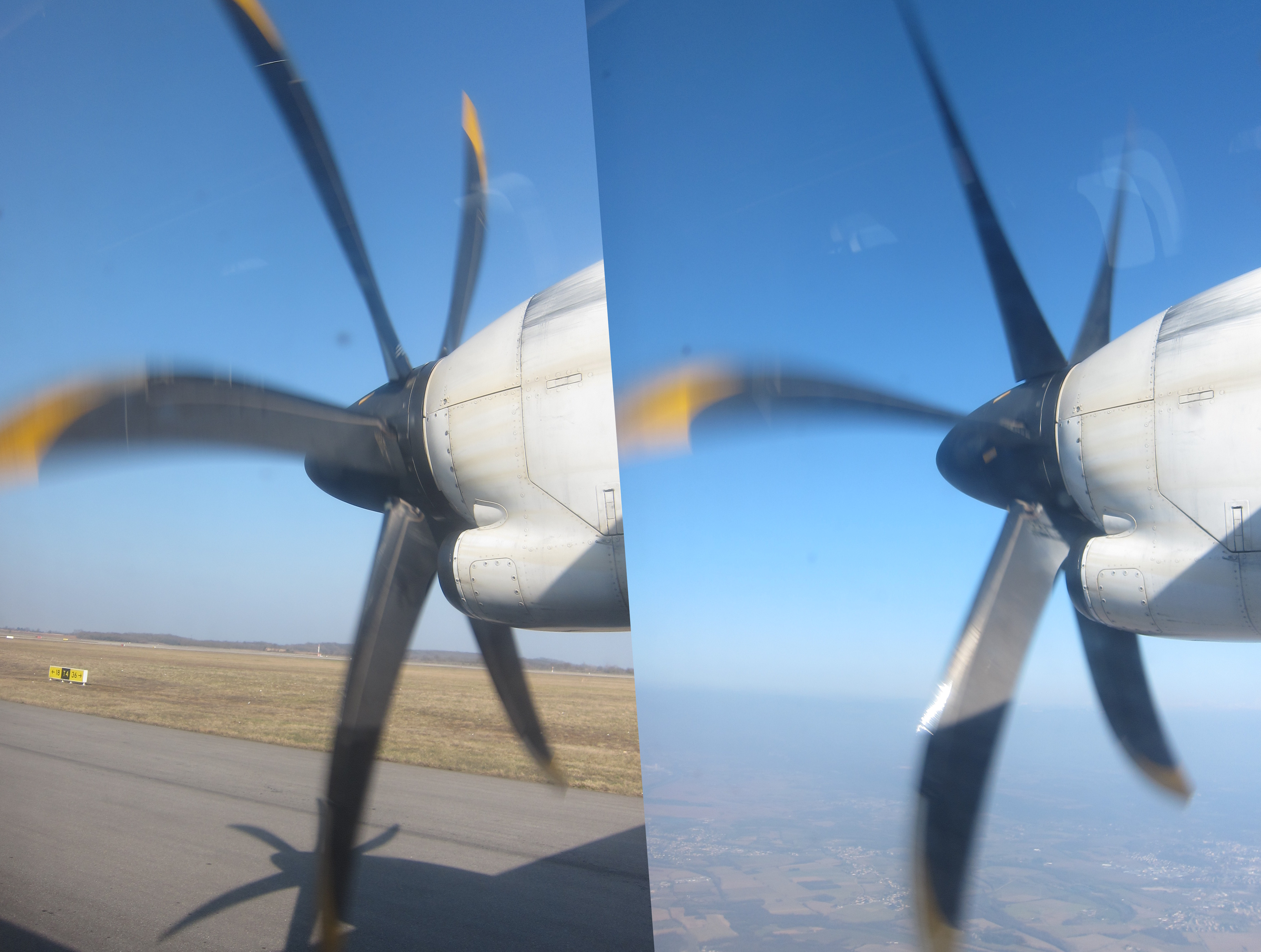 Assembly of two photos showing the propeller pitch (blade angle relative to flight direction) on the P&W127 turboprop of an ATR 72. Low pitch is adapted to strong acceleration (on the ground during taxiing), while high pitch is adapted to high speed (during cruise).